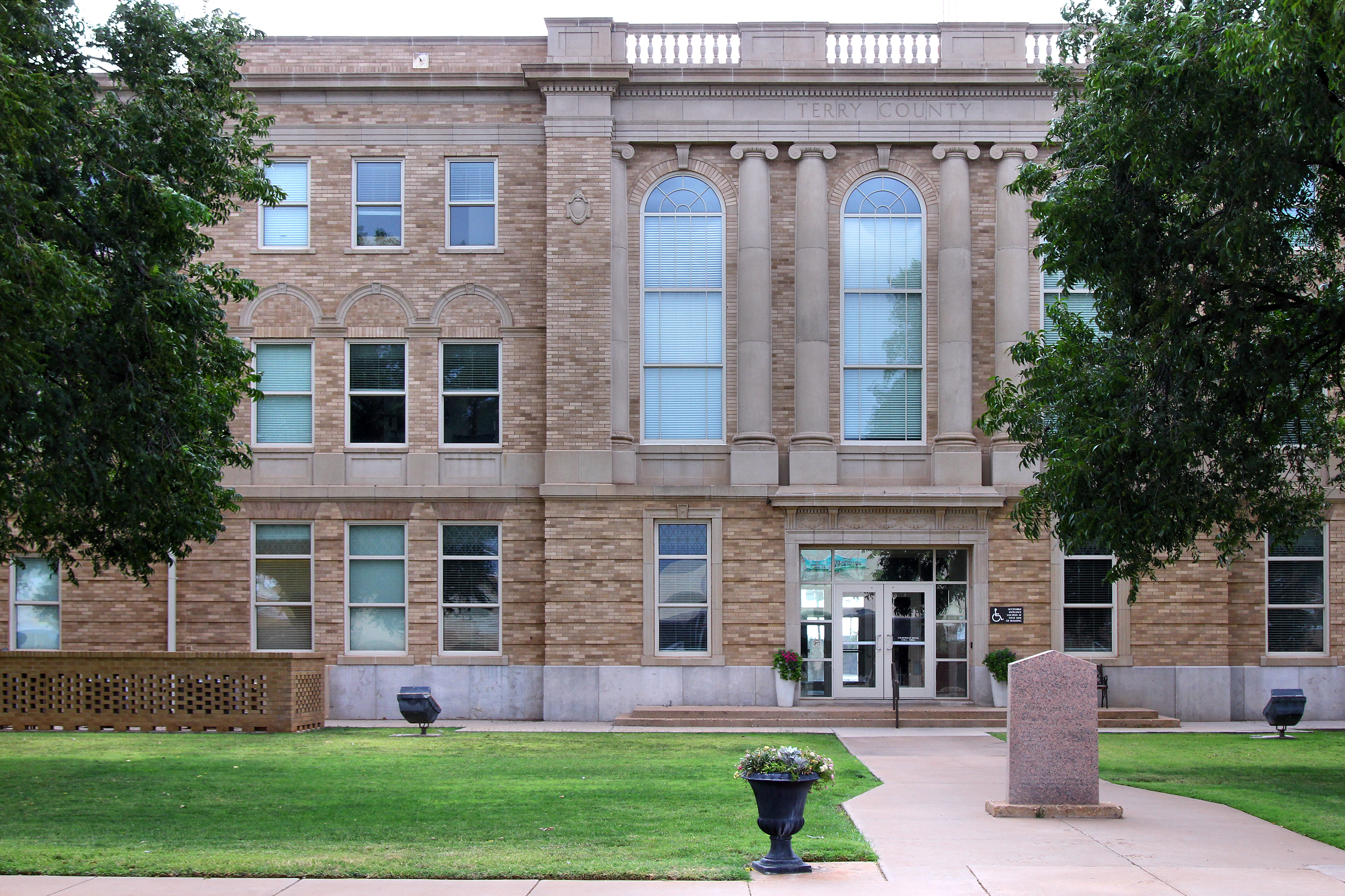 The Terry County Courthouse in Brownfield, Texas, United States was built in 1925.